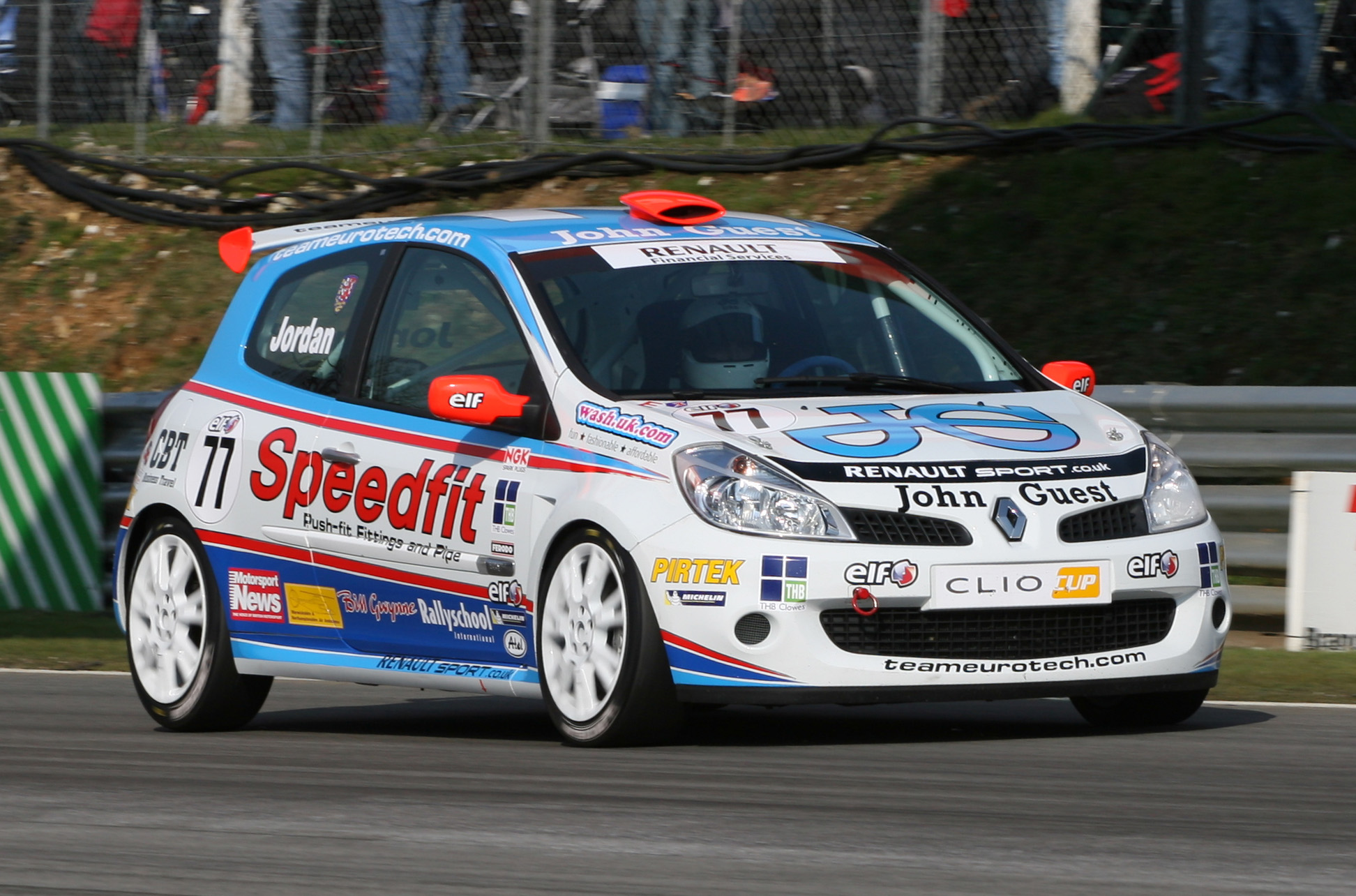 Andrew Jordan driving Renault Clio at Brands Hatch.